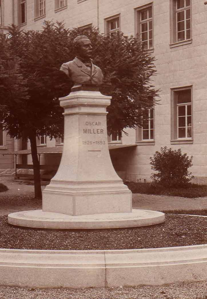 Oscar Miller, Papierfabrik Biberist/SO, Switzerland